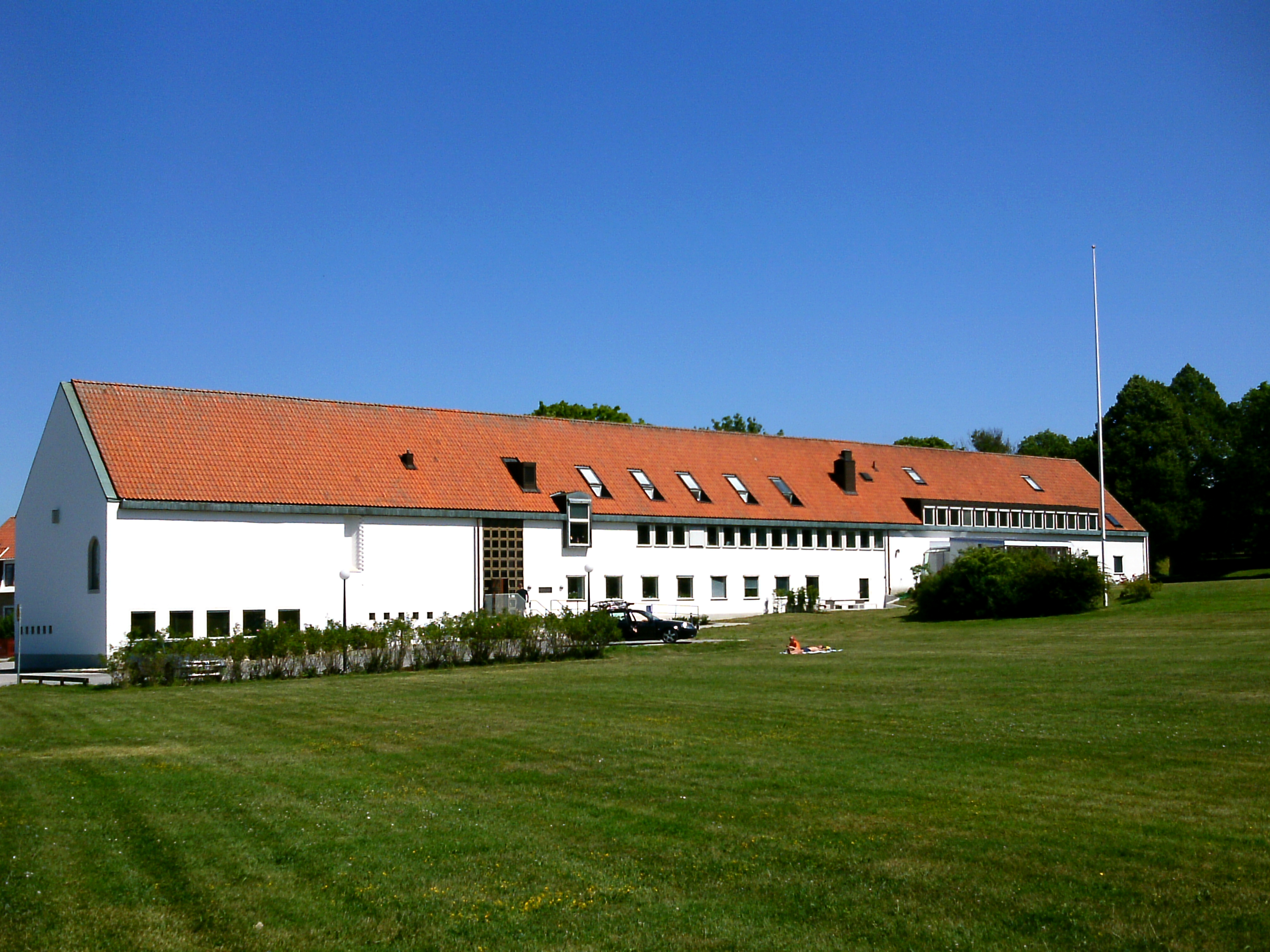 Gotland Court house, Visby, Sweden